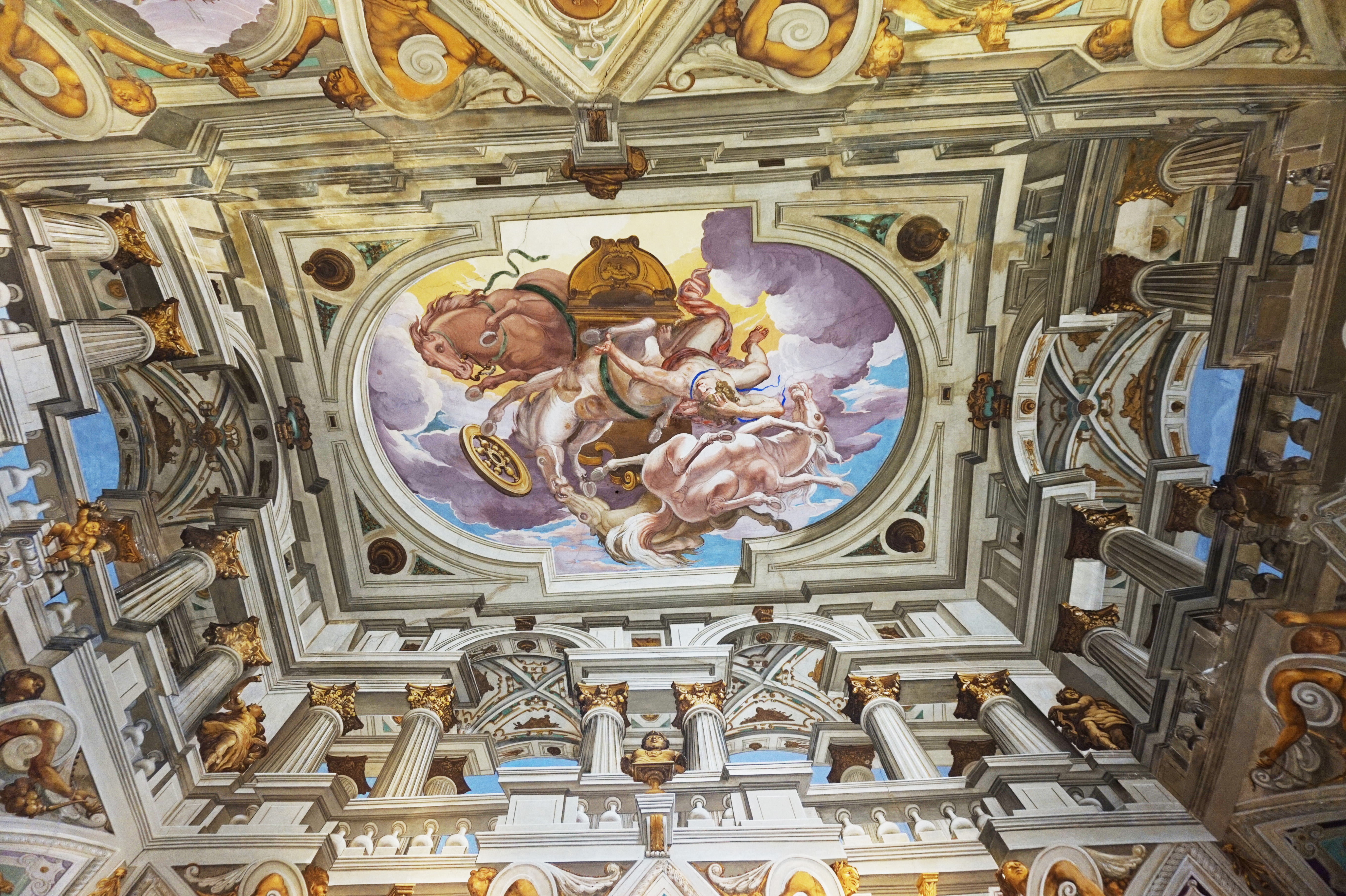 Chateau Musée GrimaldiThis photograph was taken with a Sony ILCE-5000